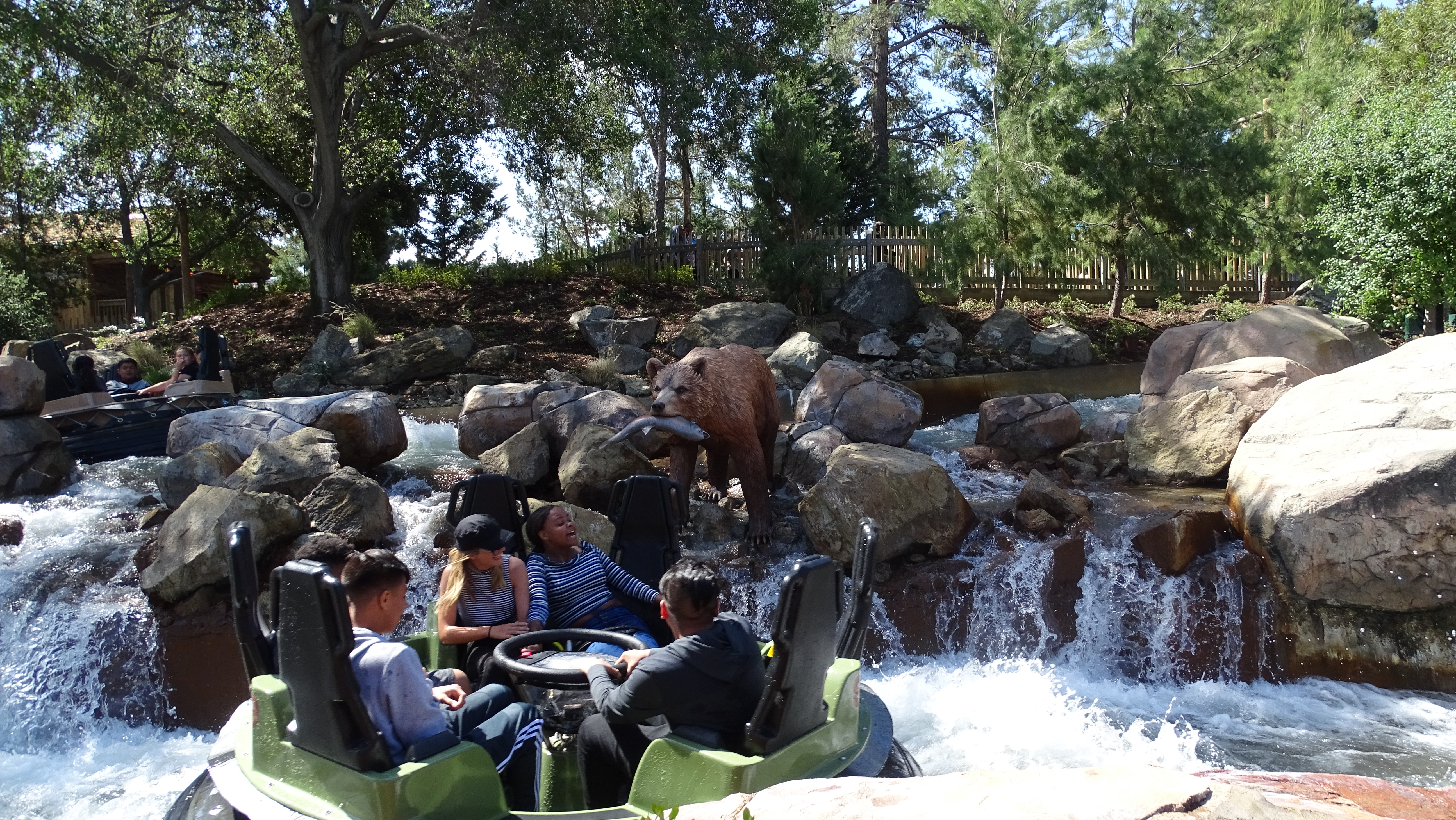 Riders spot a California grizzly bear eating tuna along the Calico River.